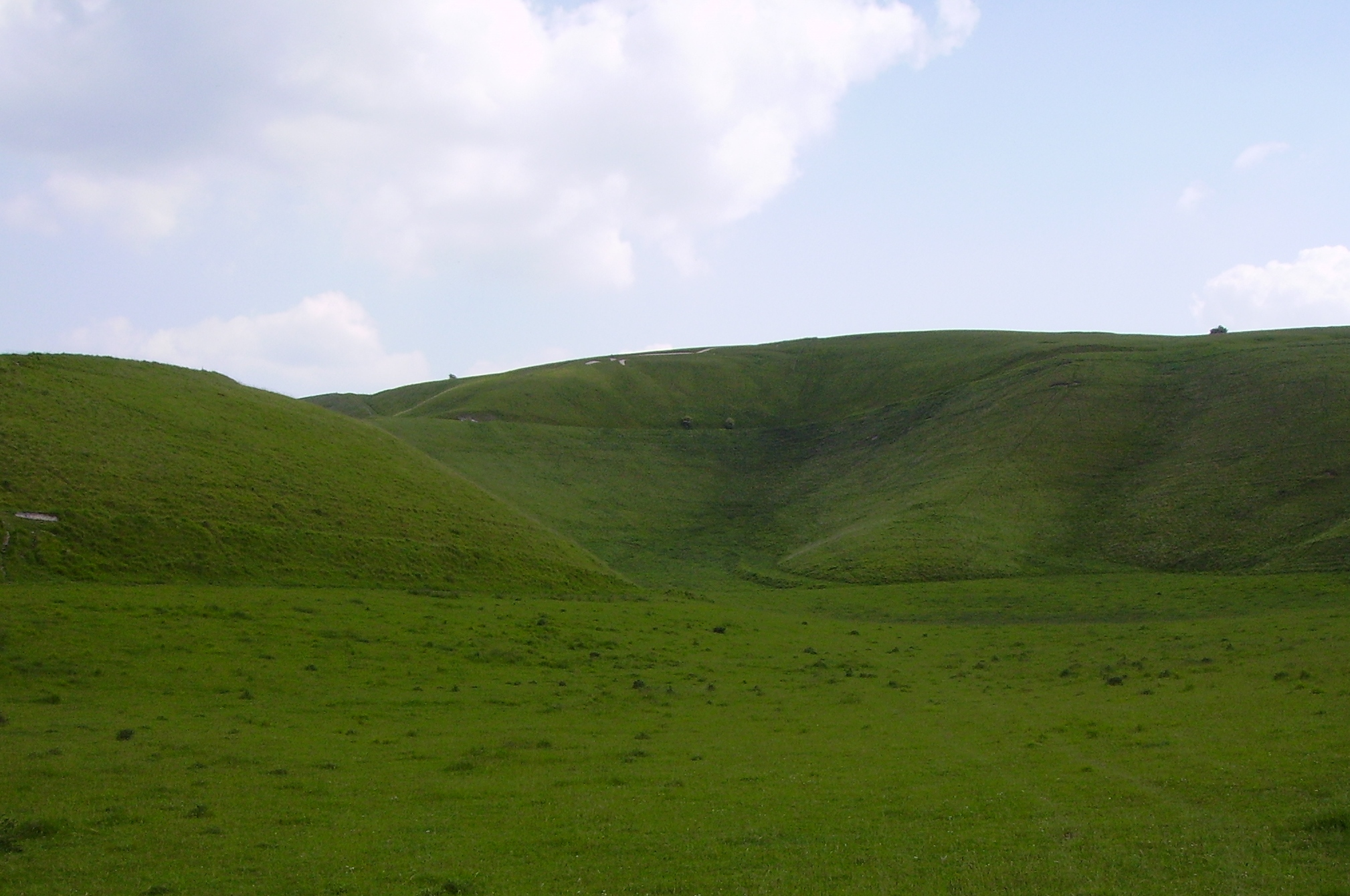 Photographer: User:Ballista